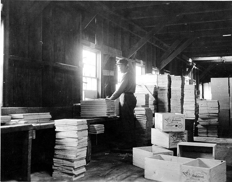 From John Cobb field notebook: Making boxes at Clark's Point, Alaska 1918 Subjects (LCTGM): Cannery workers--Alaska--Clarks Point; Canneries--Alaska--Clarks Point; Boxes Subjects (LCSH): Salmon canning industry--Alaska--Clarks Point